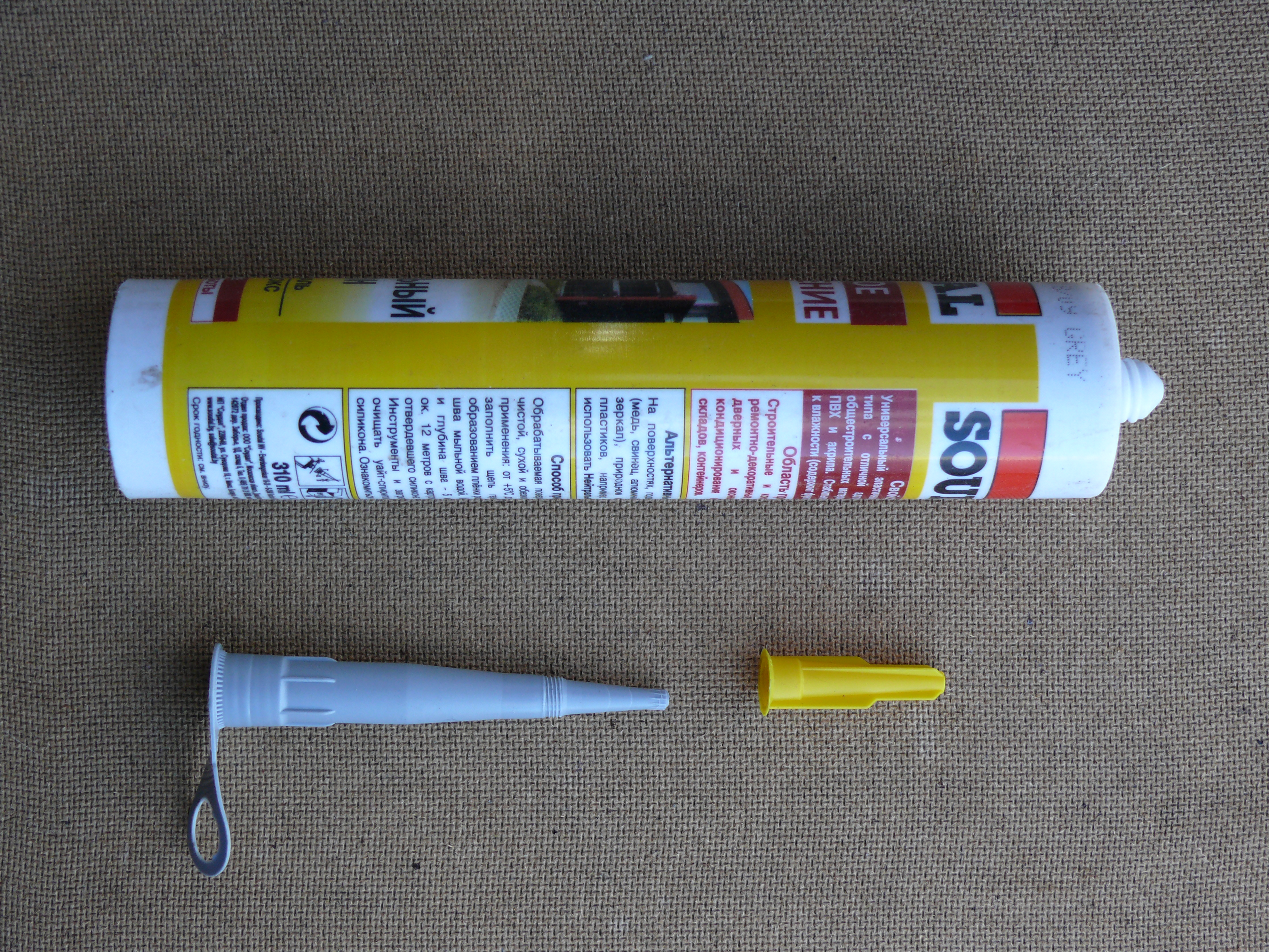 Silicon tube